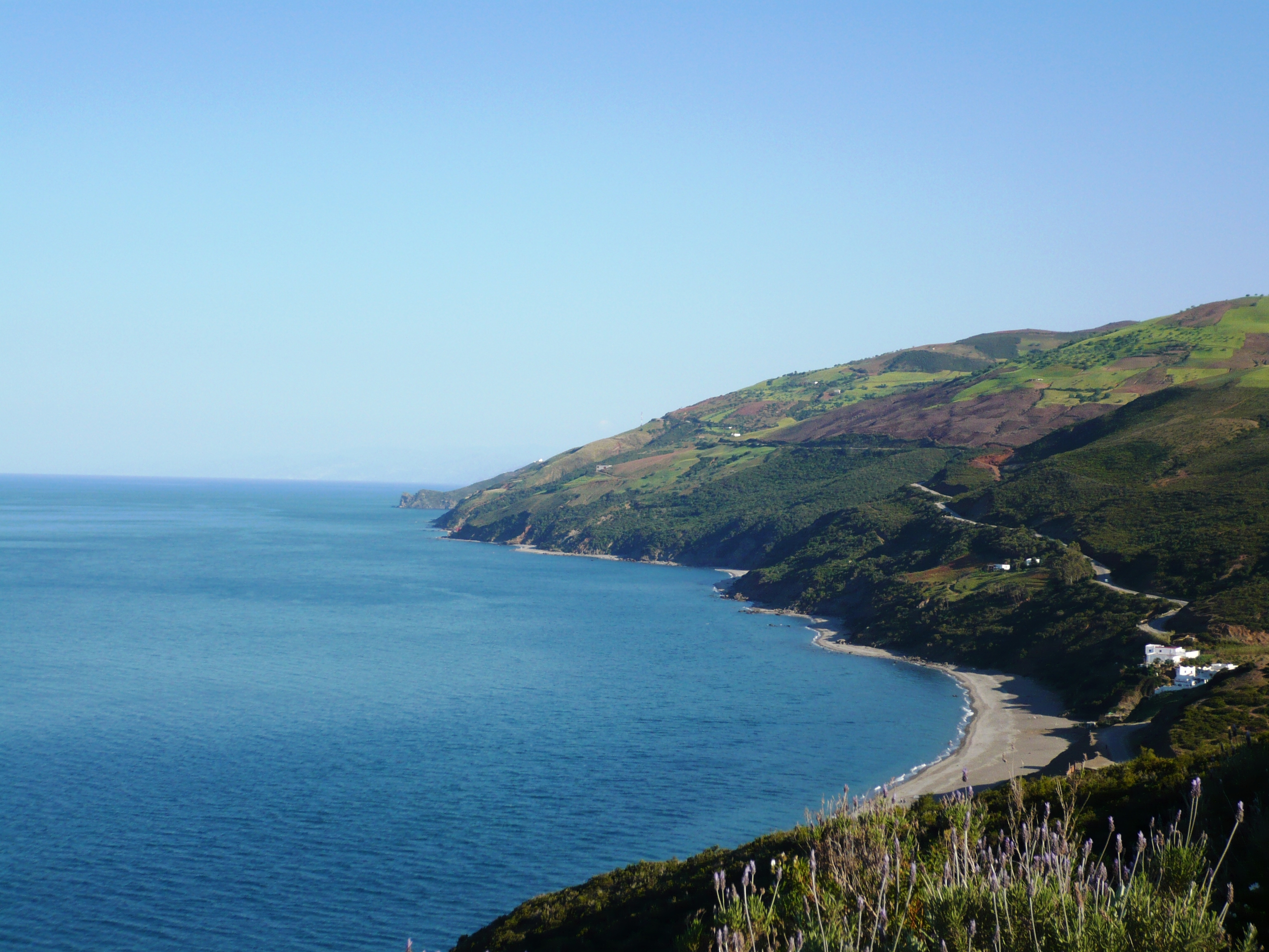 The lush shore of Oued Laou: beautiful green hills on the Mediterranean sea in the north of Morocco.